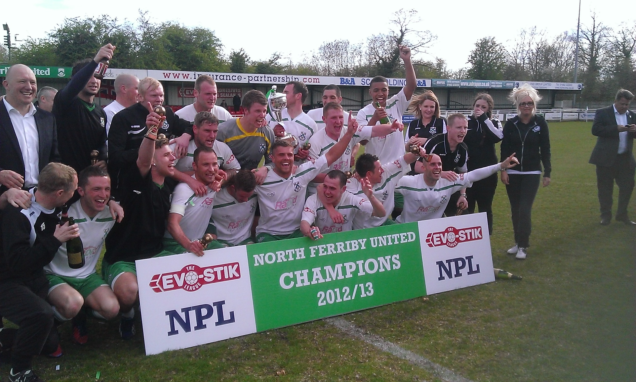 picture of the team celebrating just after winning the Northern Premier League